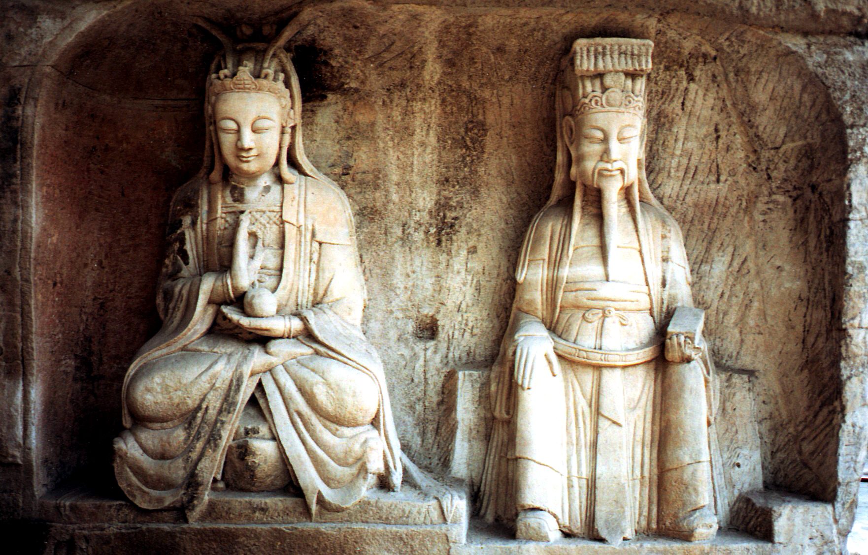 Bao Ding Mountain Rock Carvings, Dazu, Chongqing 大足宝顶山石刻